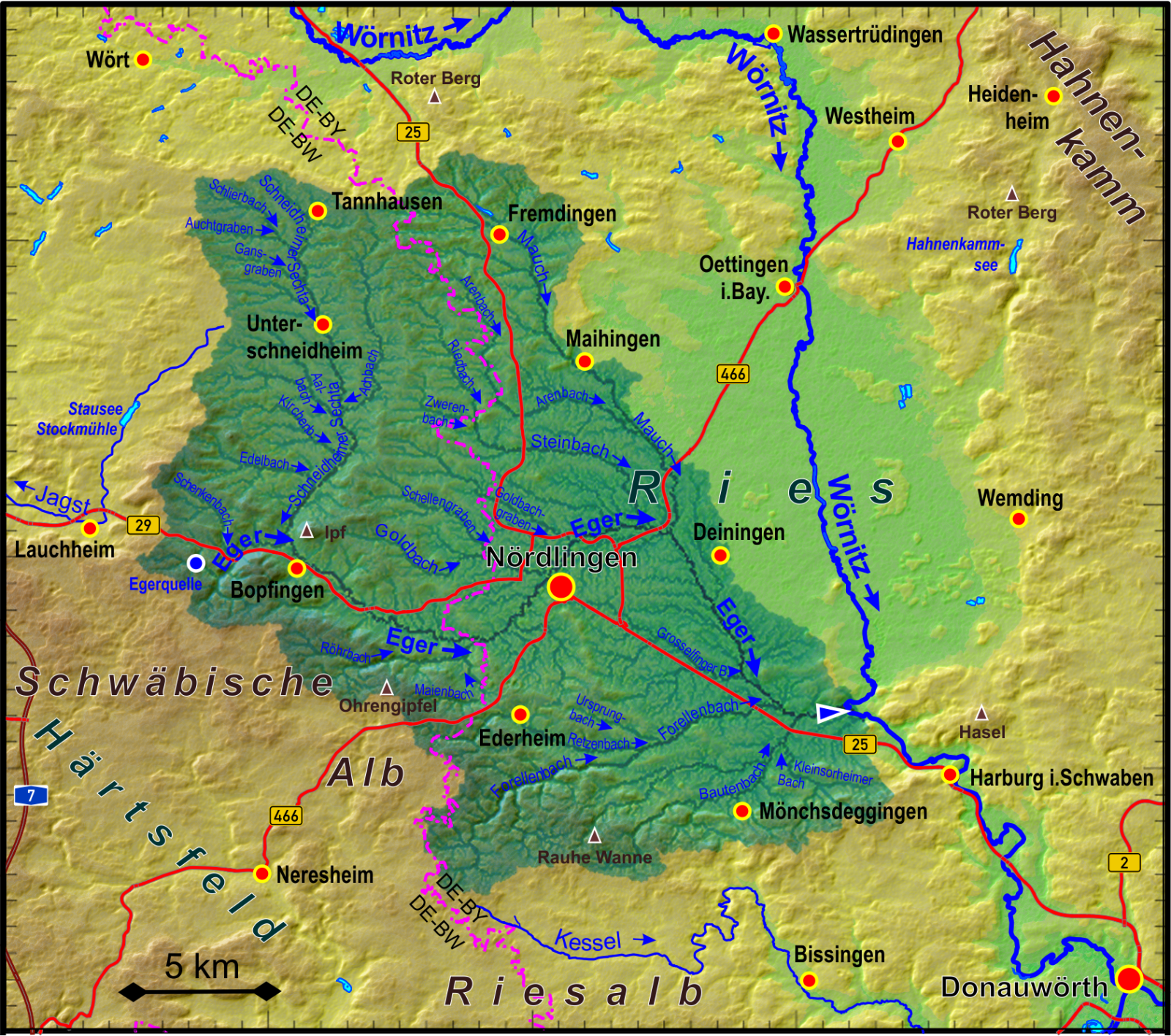 Catchment area of the Eger river (tributary of the Wörnitz river)